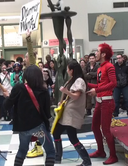 Peelander-Z jamming with Esther Ku at the Asian Heritage celebration in New York at LaGuardia Community College